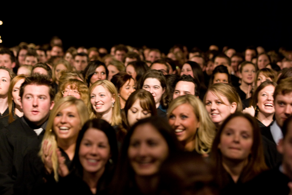 StFX graduates.